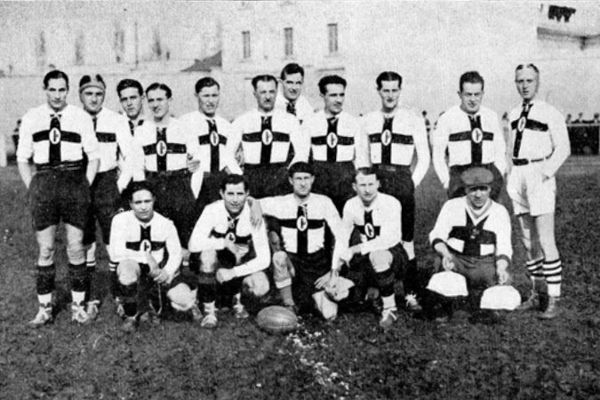 Group photograph of Ambrosiana Rugby Milan (later Amatori Rugby Milano) on the eve of the 1st Italian rugby union national championship